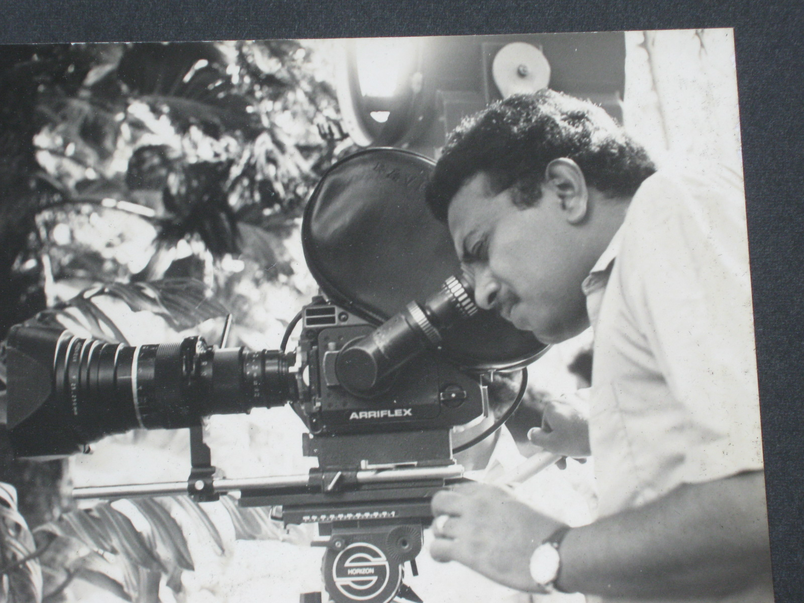 At the location of the movie manu uncle